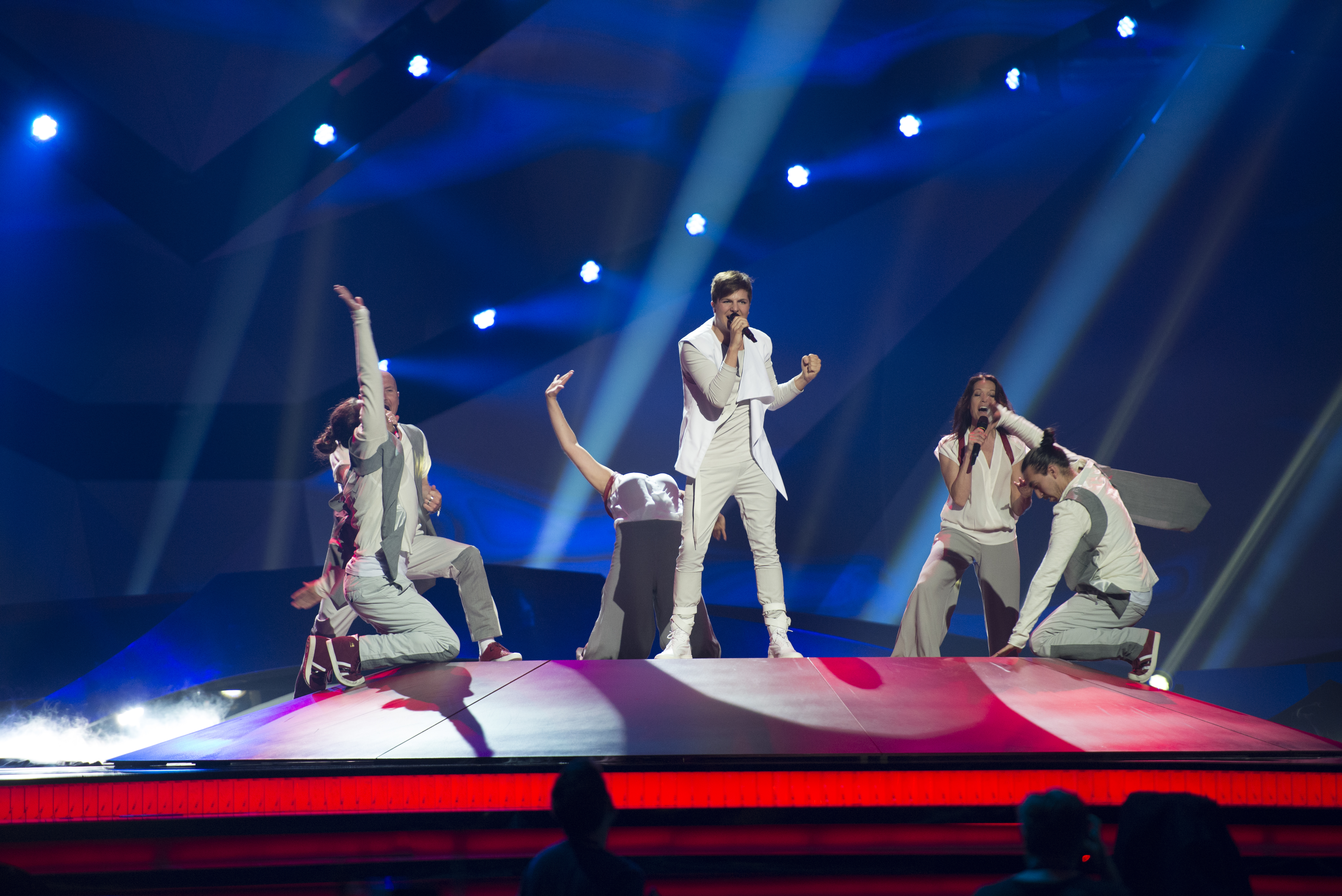 Robin Stjernberg representing Sweden with the song "You" during the first dress rehearsal of the final of the Eurovision Song Contest 2013 in Malmö. (Help translate this text)